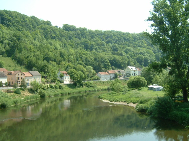 Southview of the bridge over the Sûre river on the border between Germany and Luxembourg.